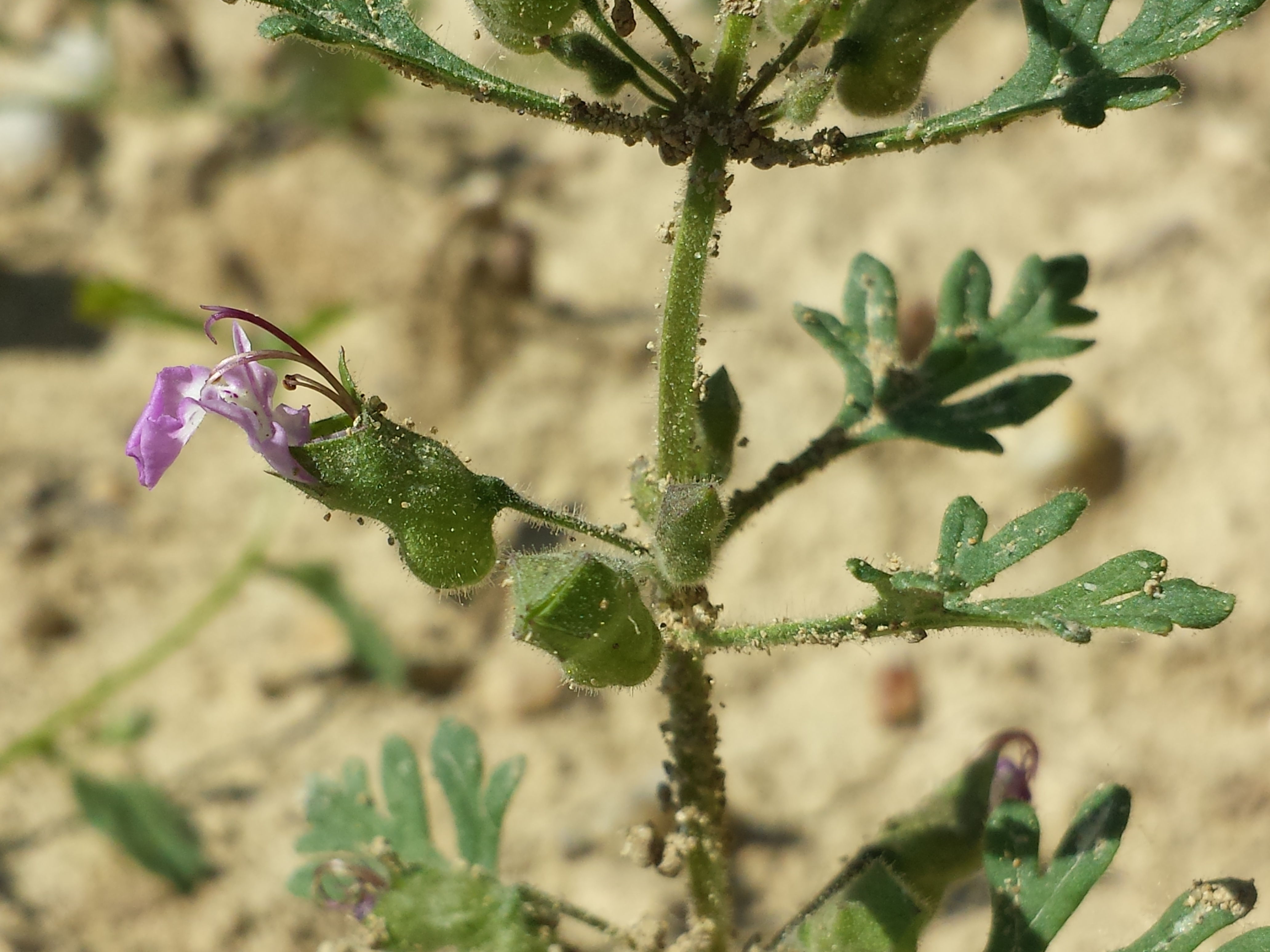 Flower Taxonym: Teucrium botrys ss Fischer et al. EfÖLS 2008 ISBN 978-3-85474-187-9 Location: next to Bergau, district Hollabrunn, Lower Austria - ca. 340 m a.s.l. Habitat: field with pumpkins